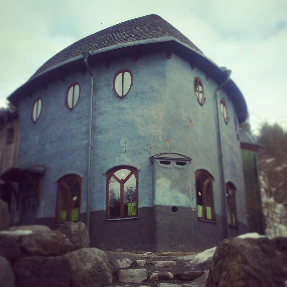 Solvikskolan, a Waldorf school in Järna (one of the buildings)